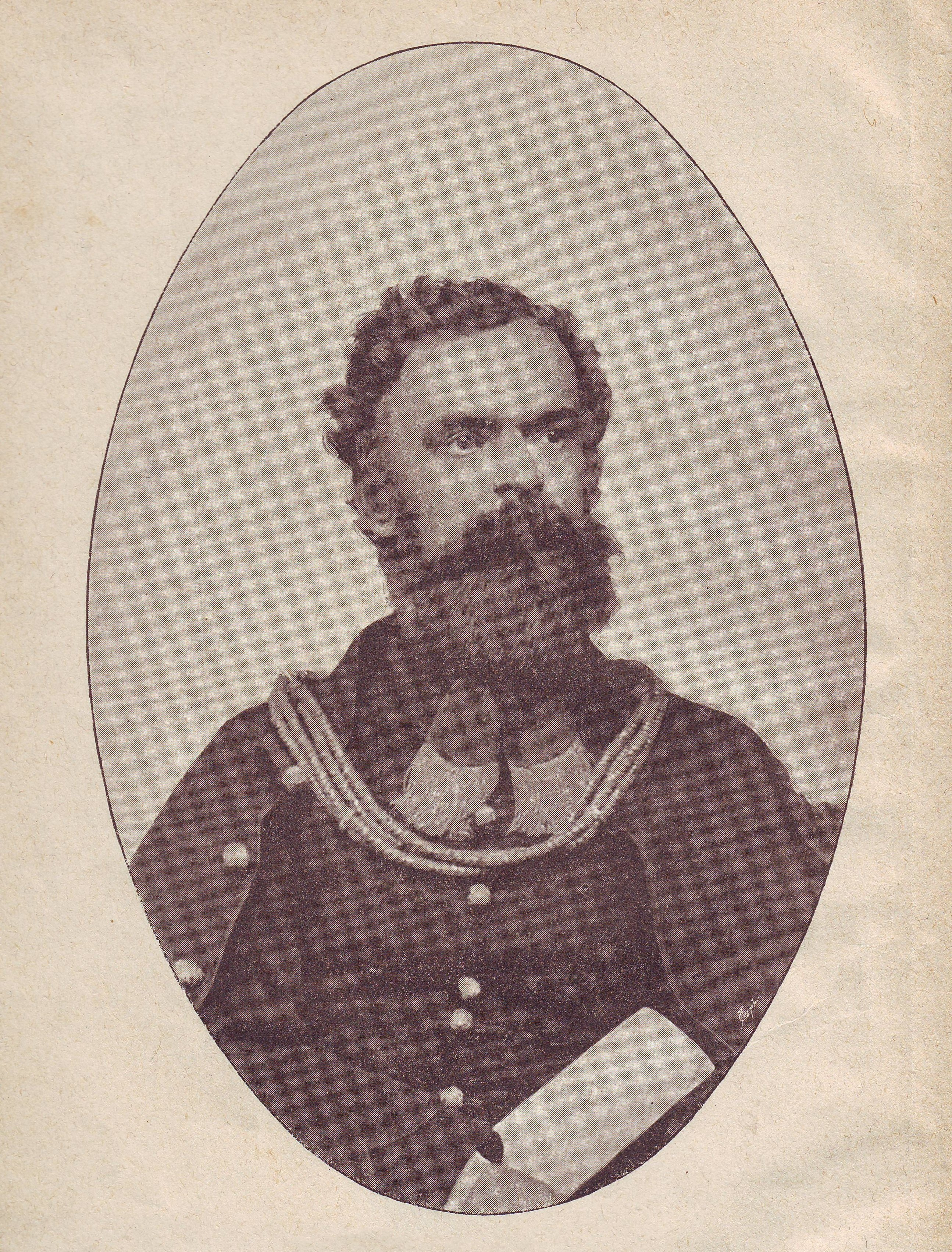 A photograph of Mirko Bogović (1816-1893), a Croatian poet and politician. Taken from the book Pjesnička djela. Sveska 3 (1895). Srpski (latinica): Fotografija Mirka Bogovića (1816-1893), hrvatskog pesnika i političara. Preuzeto iz knjige Pjesnička djela. Sveska 3 (1895).